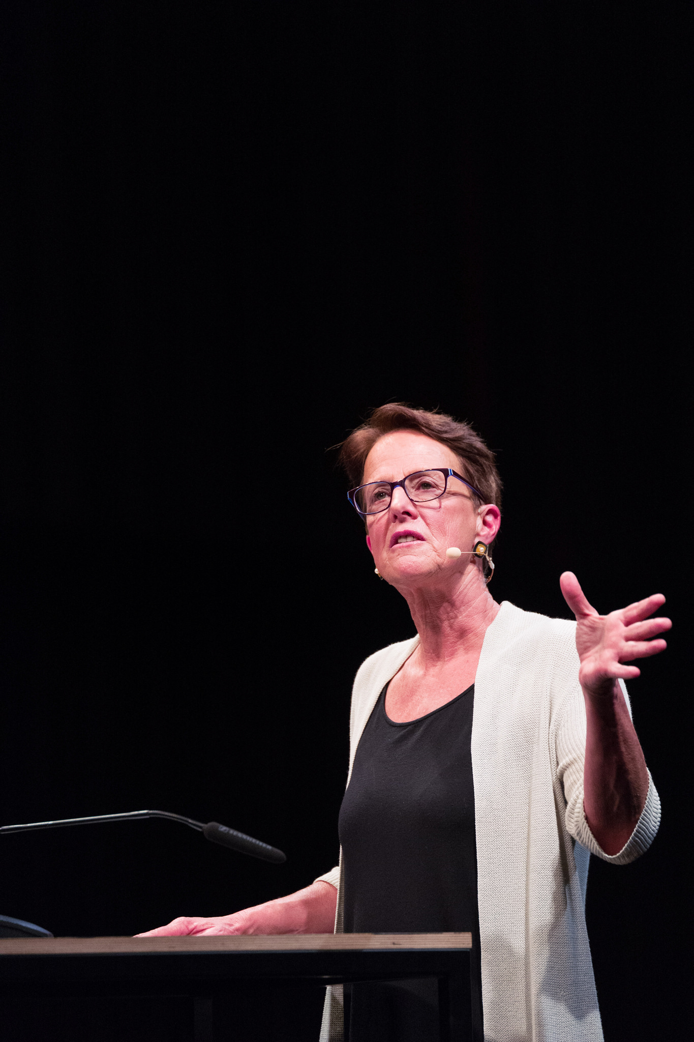 Wendy Brown delivering the Democracy Lecture at the HKW Berlin in 2017. Photograph by Santiago Engelhardt.